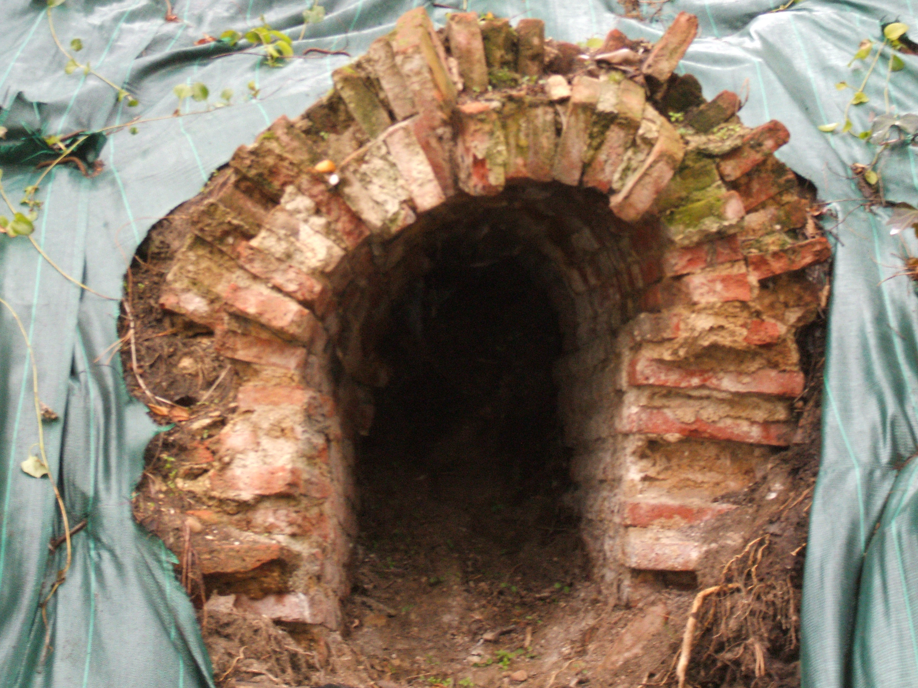 This is the "Palacio de la Ribera" ("Palace of the Bank") in Valladolid (Spain), built during the reign of Felipe III in this city (1601-1606). This king used the palace to live into it in Summer.